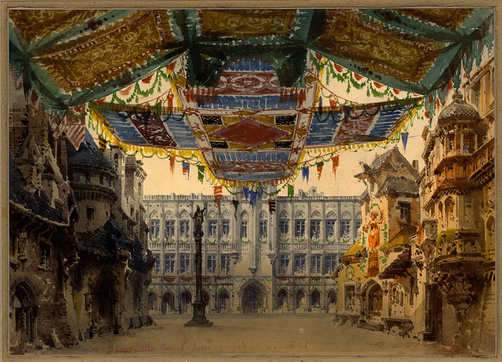 Donizetti-Le duc d'Albe-Rome-Teatro Appolo 1882